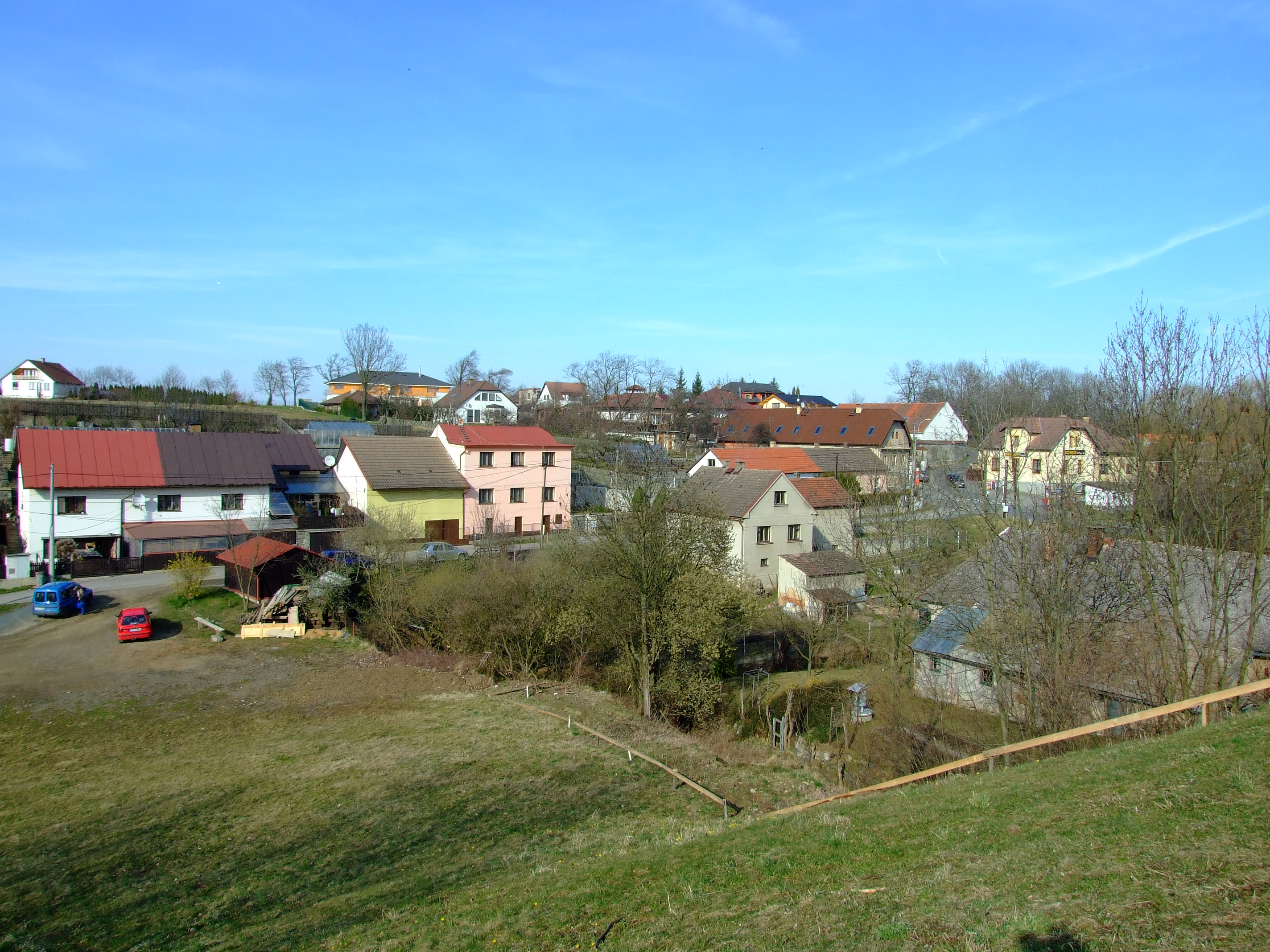 Ohrobec village, Central Bohemian district, CZ